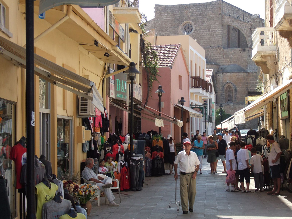 Famagusta, CiproMain Street